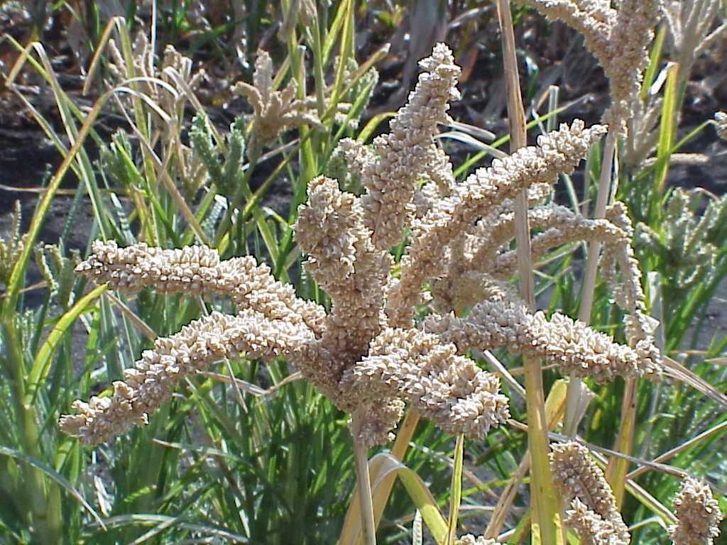 Image taken by J. Wilson, USDA-ARS while in Ethiopia in 2002. Image in public domain and not copyrightable.